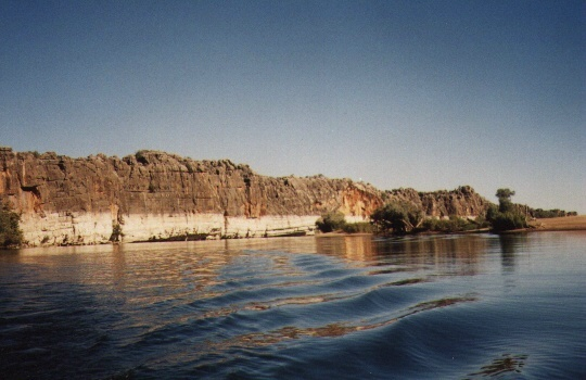 Taken by me July 2003 Tiles 07:51 14 Jul 2003 (UTC)